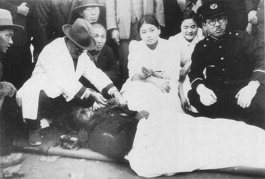 Kiyoshi Tanabe (In support of the labor movement, the man who climbed the chimney).